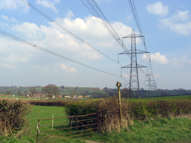 Bidlake Farm and more pylons A view from the road between Broadoak and Atrim towards Bidlake Farm. A public footpath crosses the road at this point.